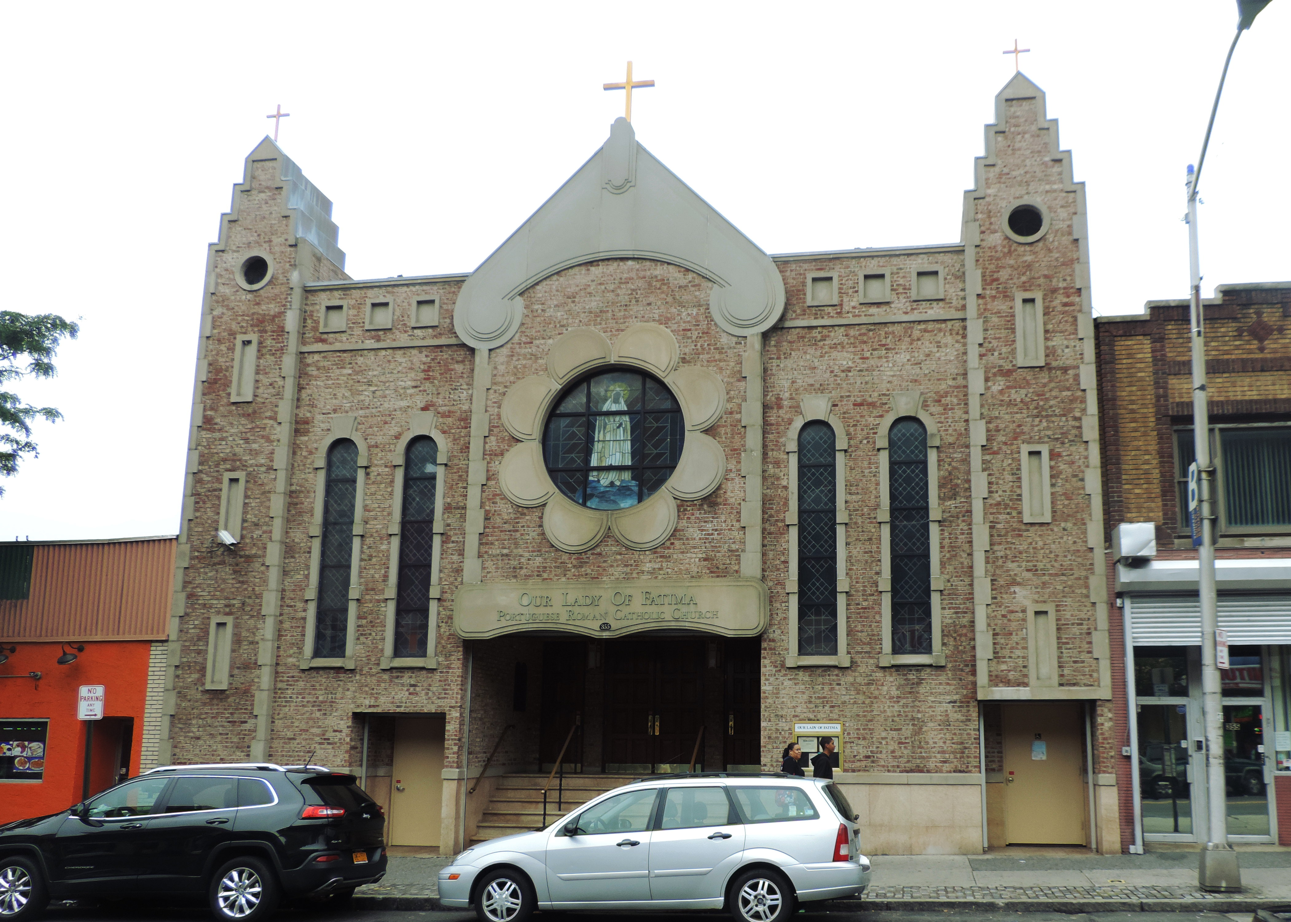 Looking west at church on a cloudy midday.